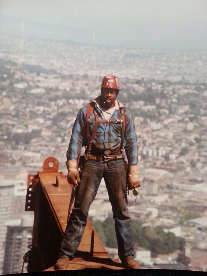 Ron Howard on a beam